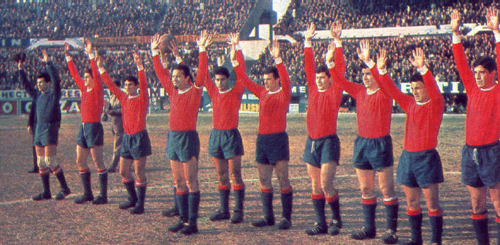 Independiente team which won 1965 Libertadores